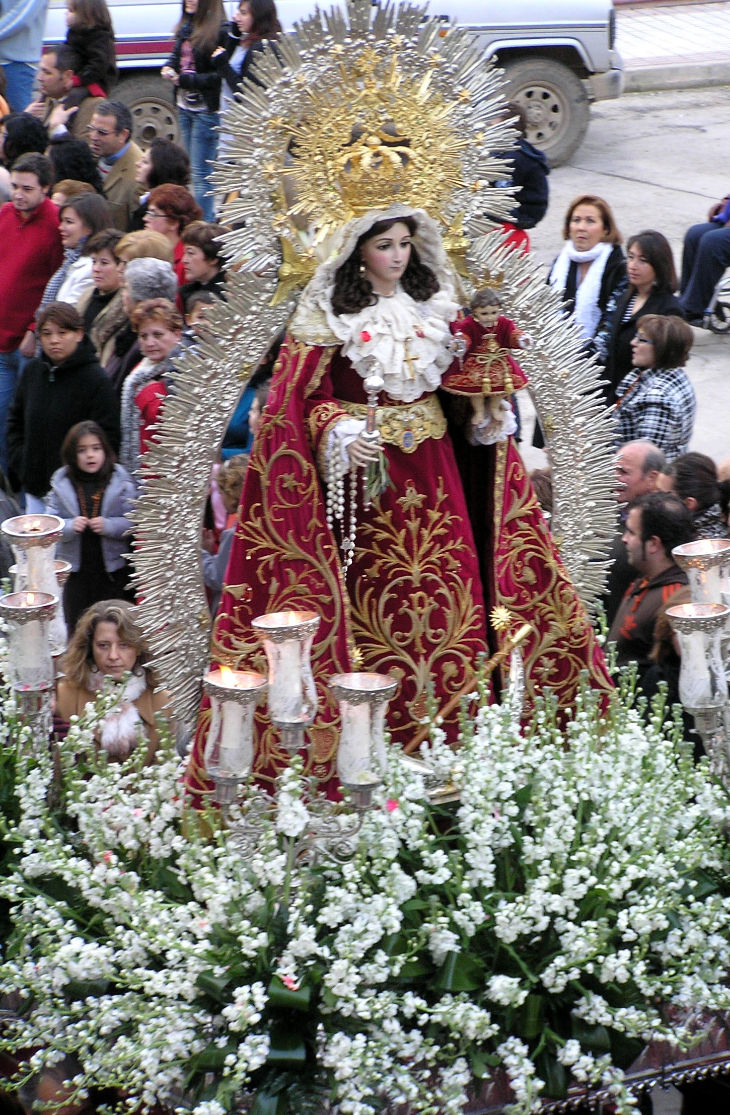 Procesión de la Virgen de la Paz, el 24 de enero